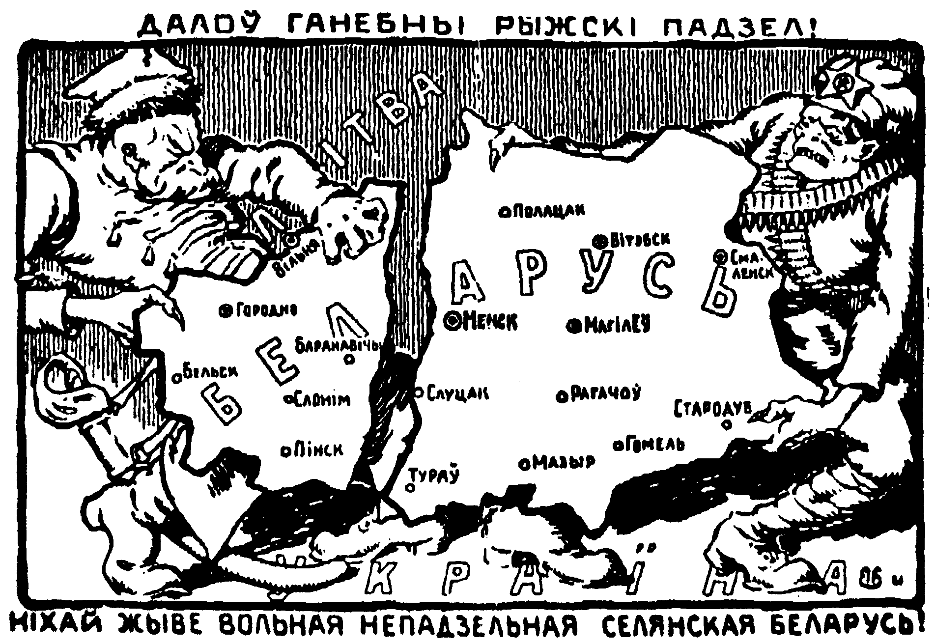 Caricature for Riga Peace 1921. Shows a Pole in old-style officer's uniform and sword-belt, and an ammunition-bandoliered and skull-faced Red Army soldier, together tearing White Russia or Belarus into two, while stomping on Ukraine.